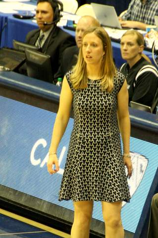 Lindsay Gottlieb of California Golden Bears in 2015 NCAA Tournament at Haas Pavilion